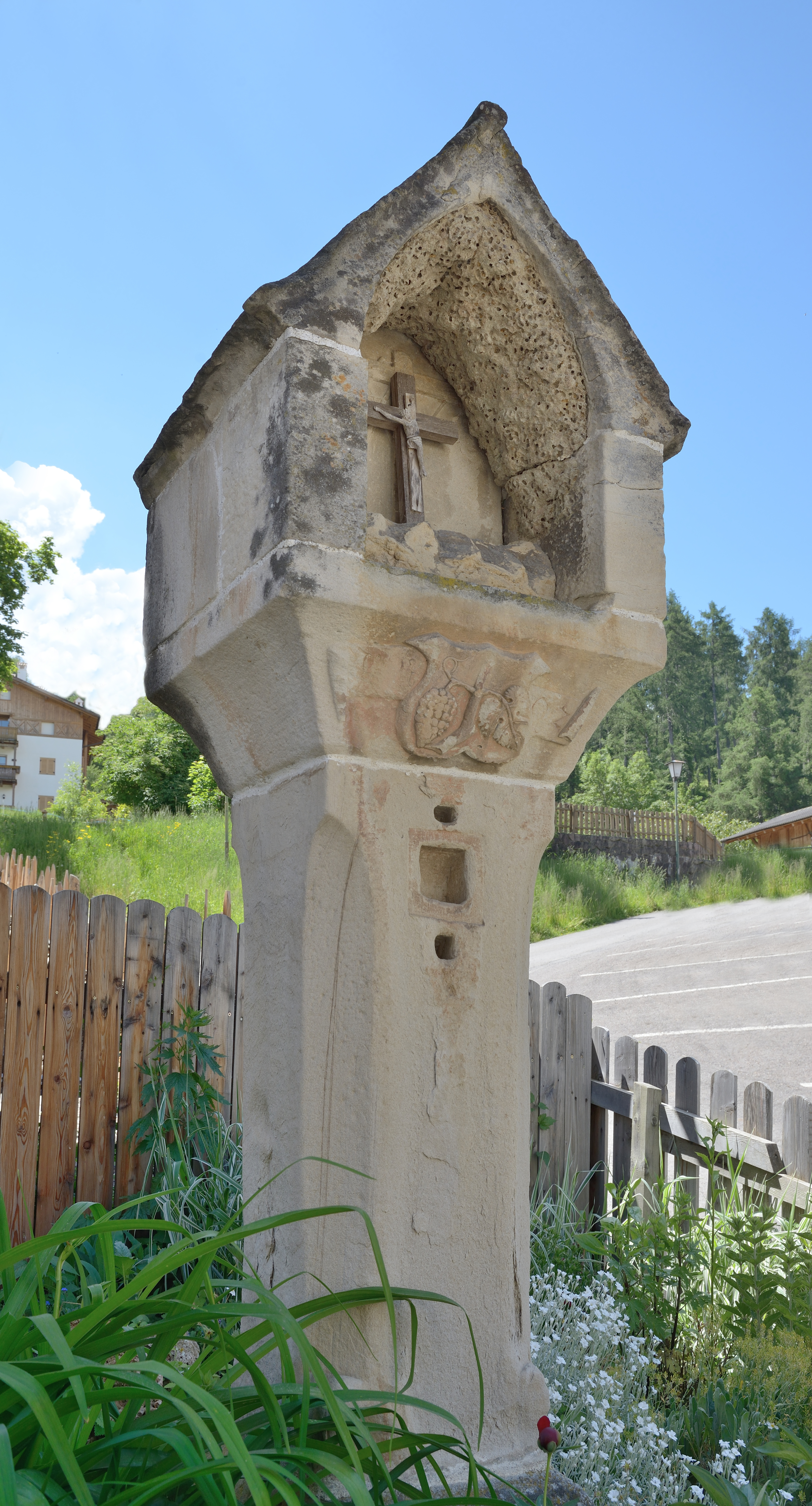 Wayside shrine in Prösels in Völser Aicha AD 1492.